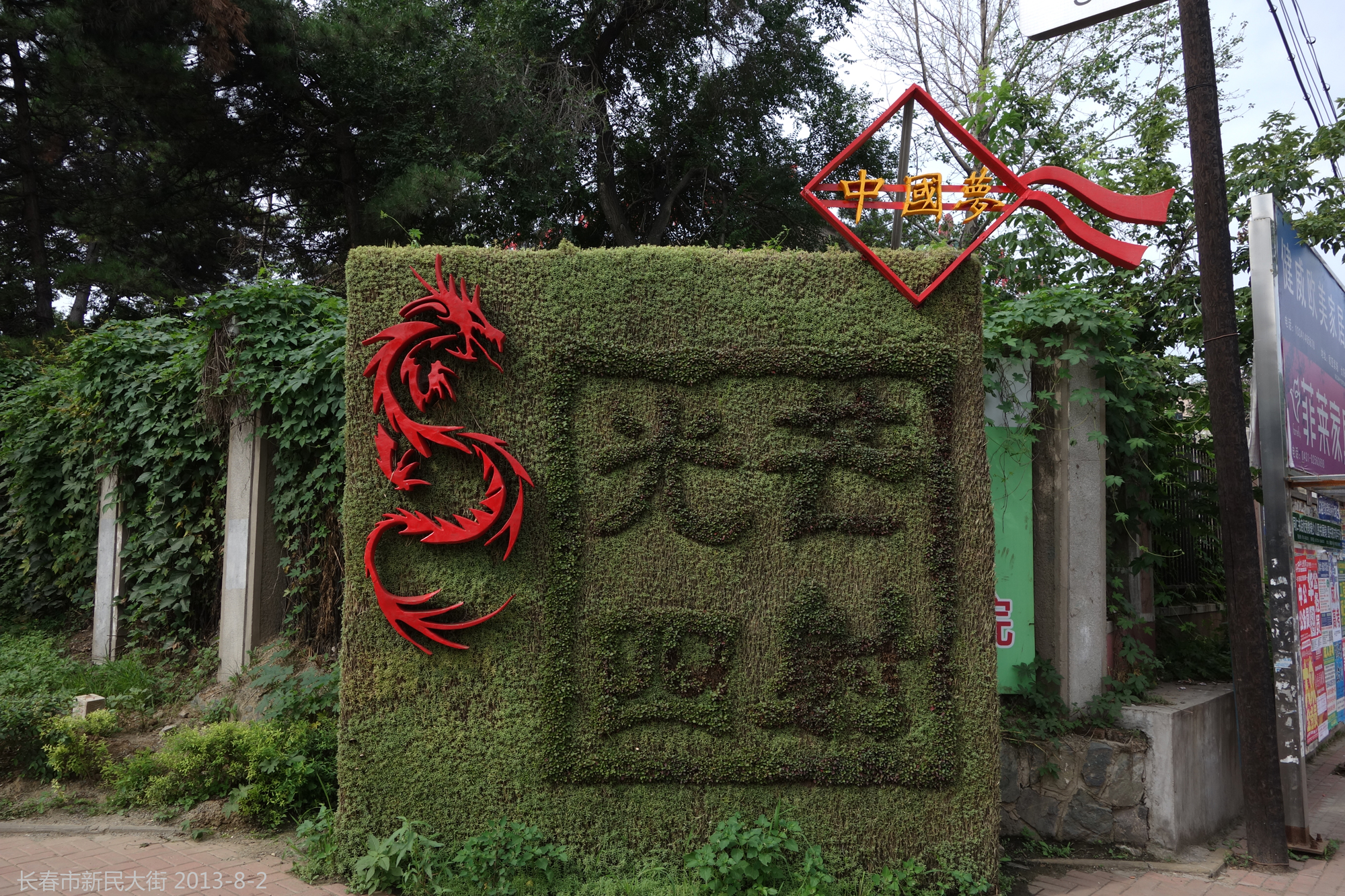 中国梦：光芒四射 China Dream ---Shining out